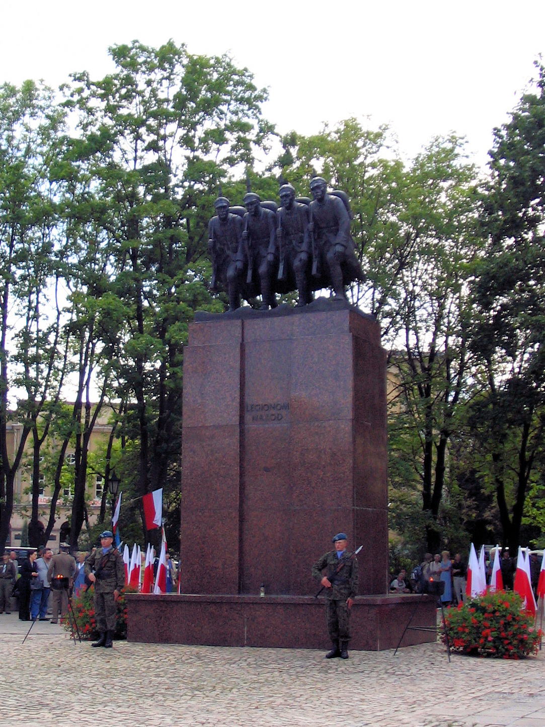 The Monument of The Legion Five, Kielce, Poland, 2006. Aparat/Camera: Canon PowerShot A75